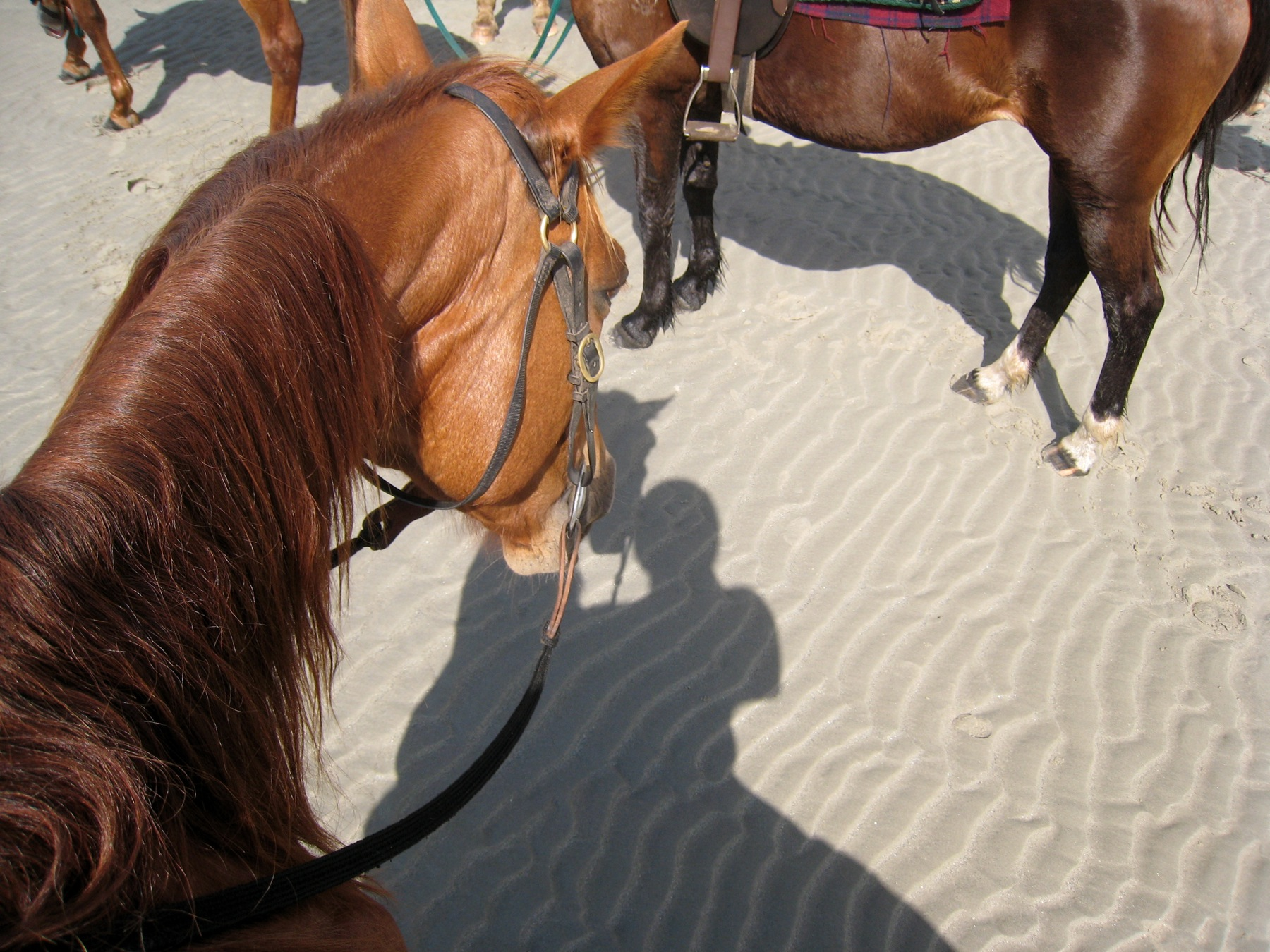 A fantastic day horseback riding north of Port Douglas on Wonga Beach